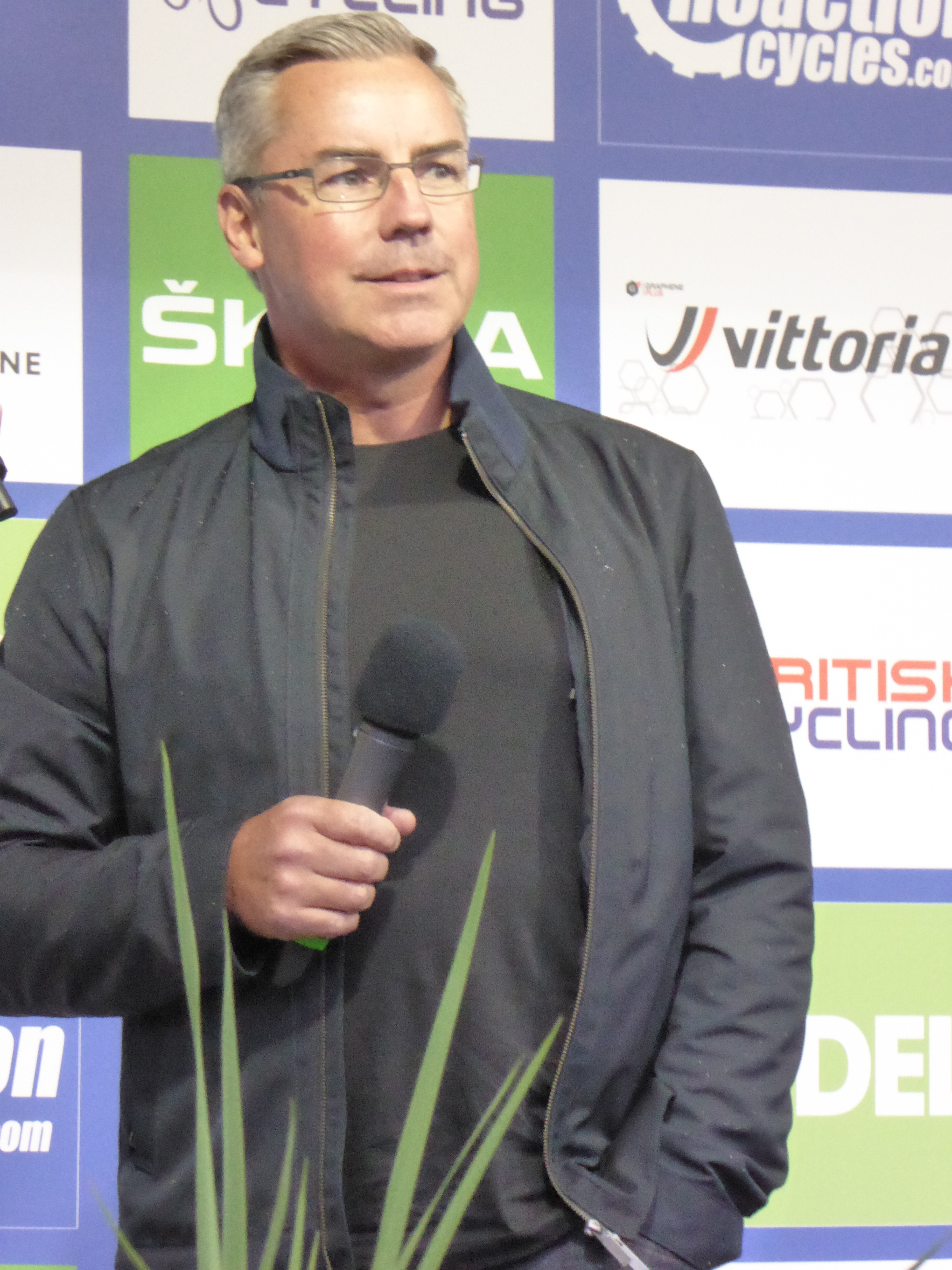 Brian Smith, pictured at the 2016 Tour of Britain team presentation in Glasgow on 3 September 2016.